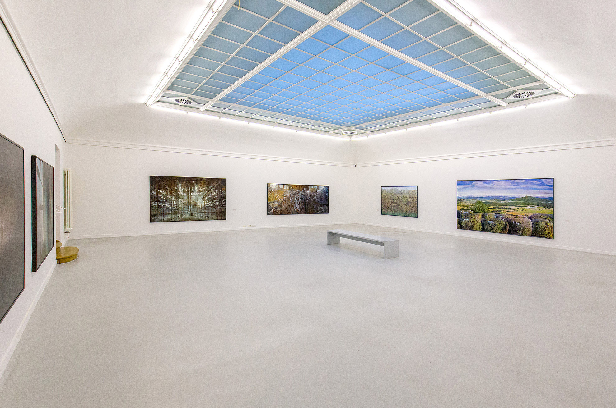 Showroom on the 1st floor of the Kunstverein Konstanz Wessenbergstrasse 39/41 78462 Konstanz